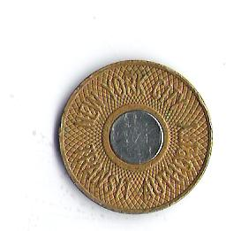 A New York City Subway token.